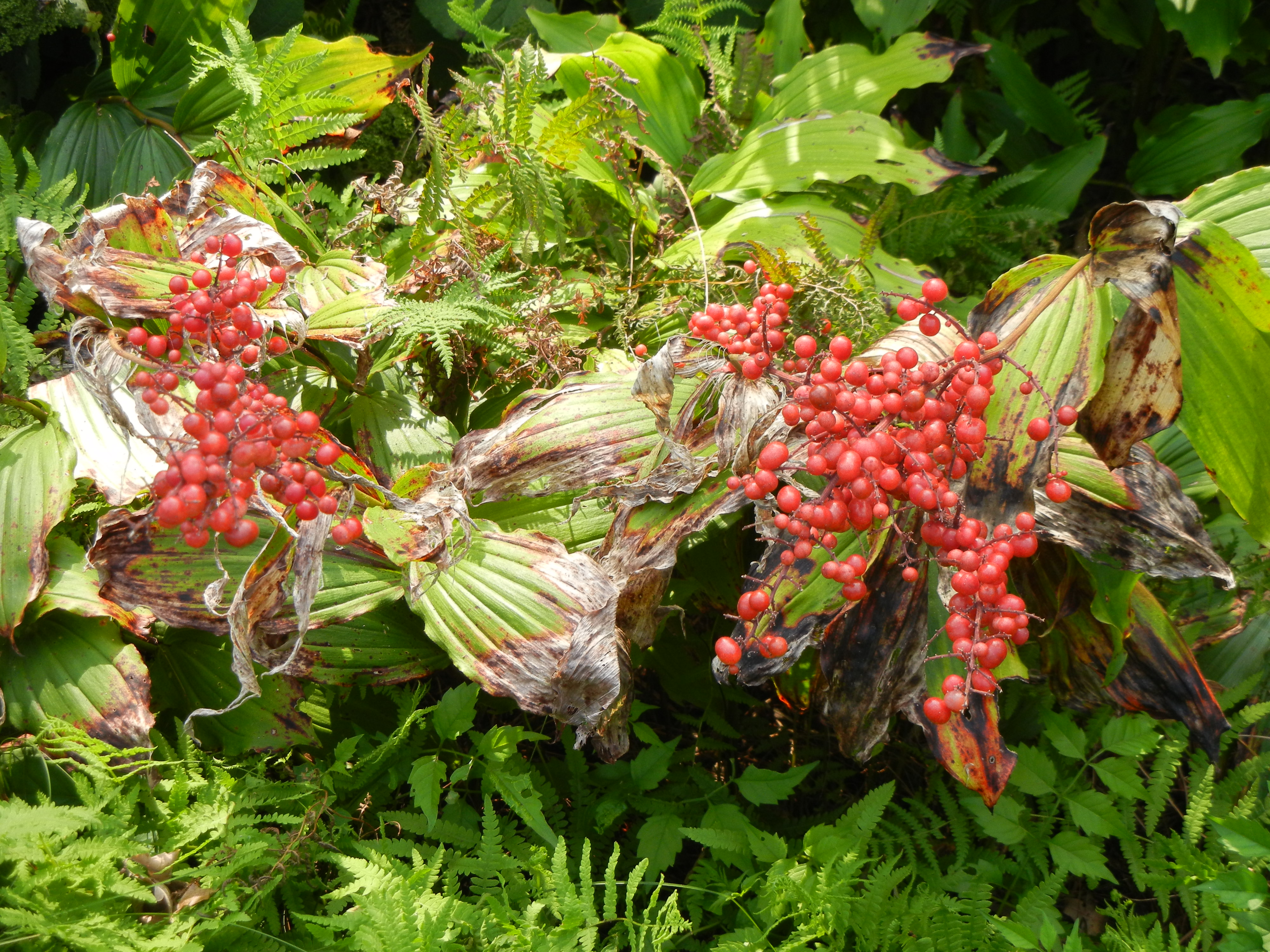 Maianthemum racemosum (Fake Solomon's Seal)